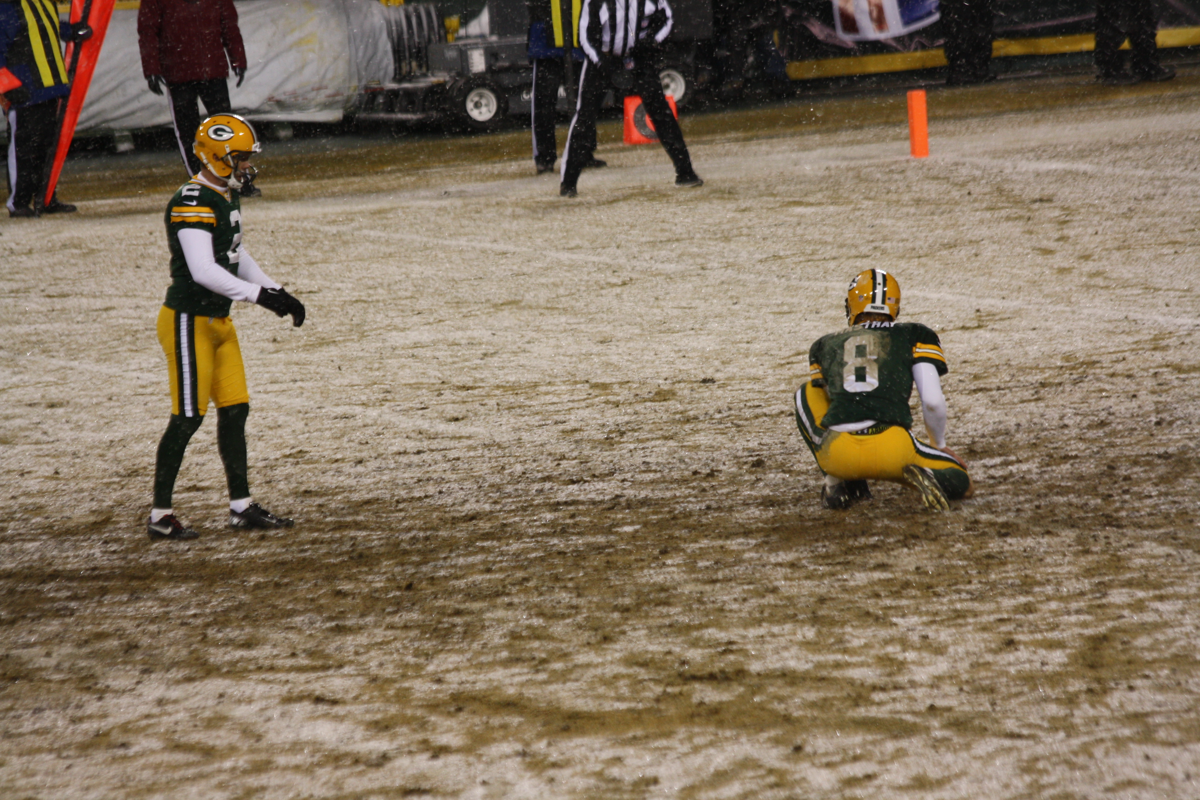 Green Bay Packers kicker Mason Crosby prepared to kick a fieldgoal against the Pittsburgh Steelers with holder Tim Masthay.